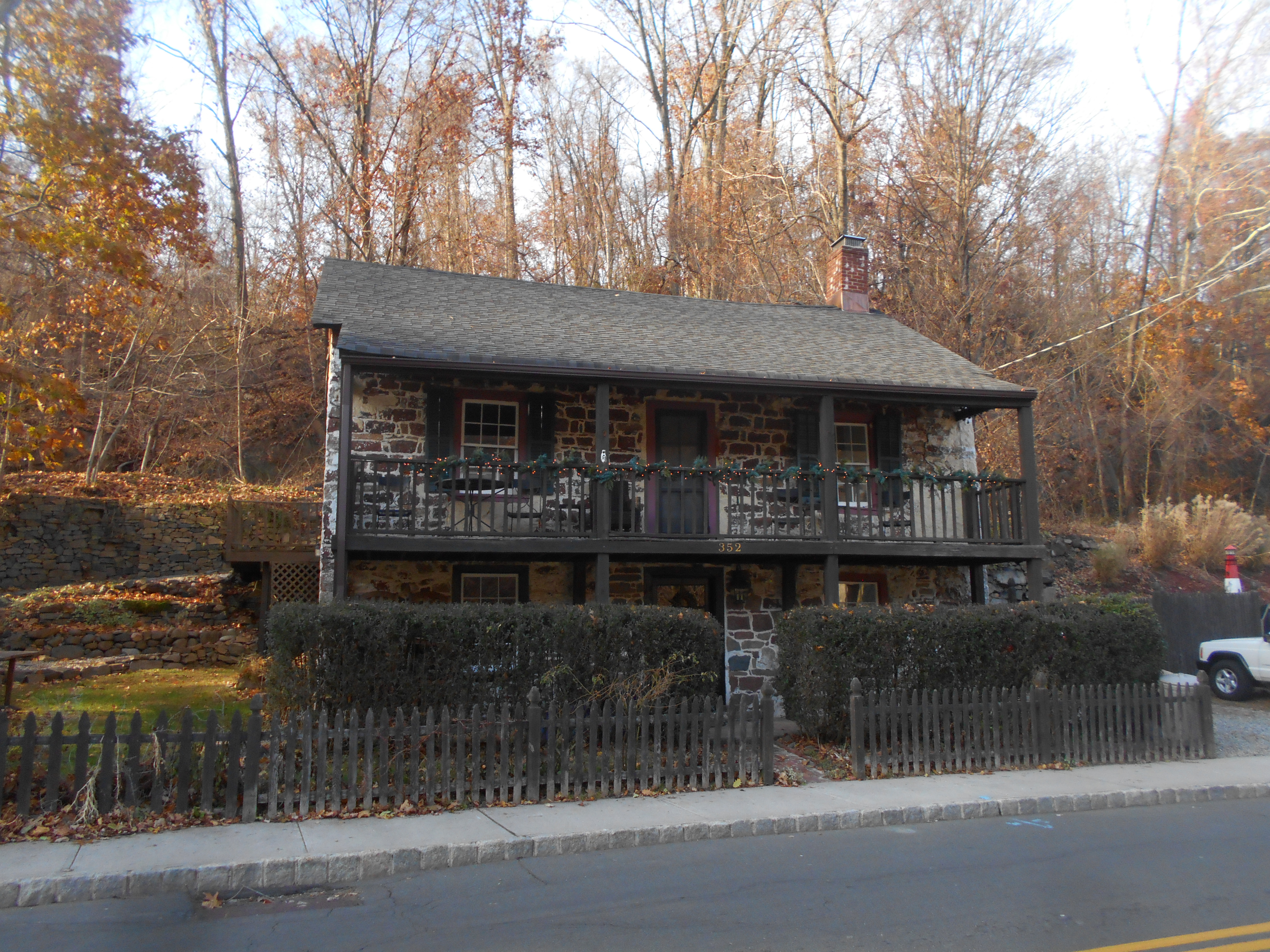 The house at 352 Piermont Avenue in Piermont, New York, as seen in November 2014.